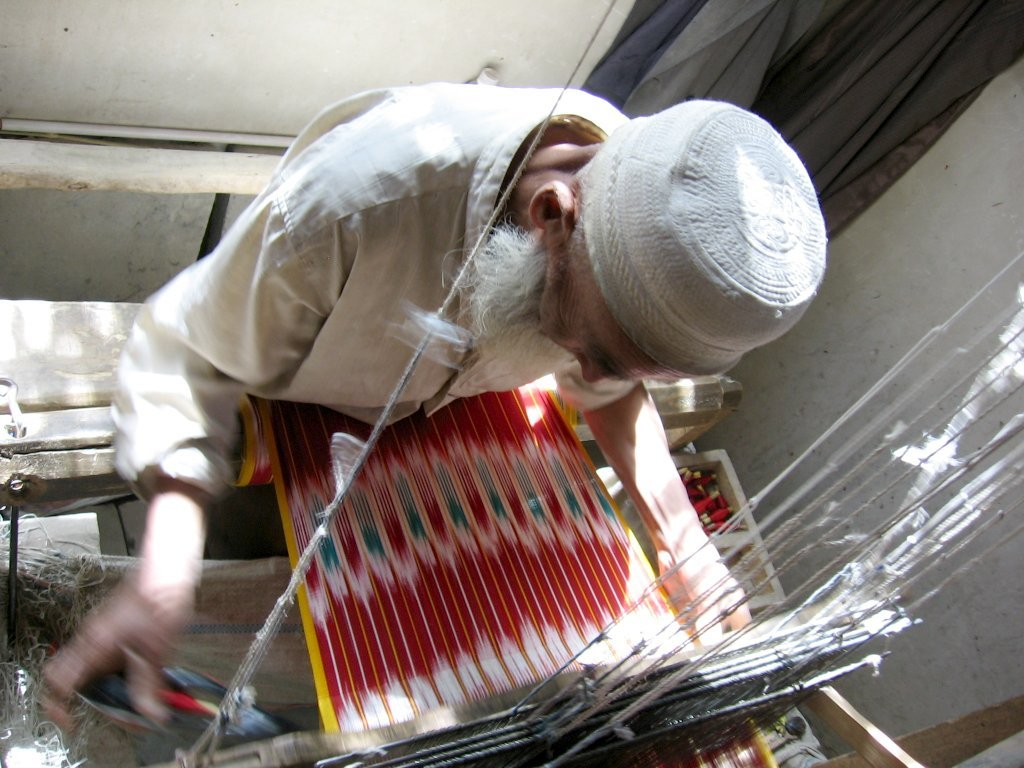 Khotan (Hotan / Hetian) is an oasis city in the Xinjiang Uygur Autonomous Region of the People's Republic of China. Atlas silk factory.